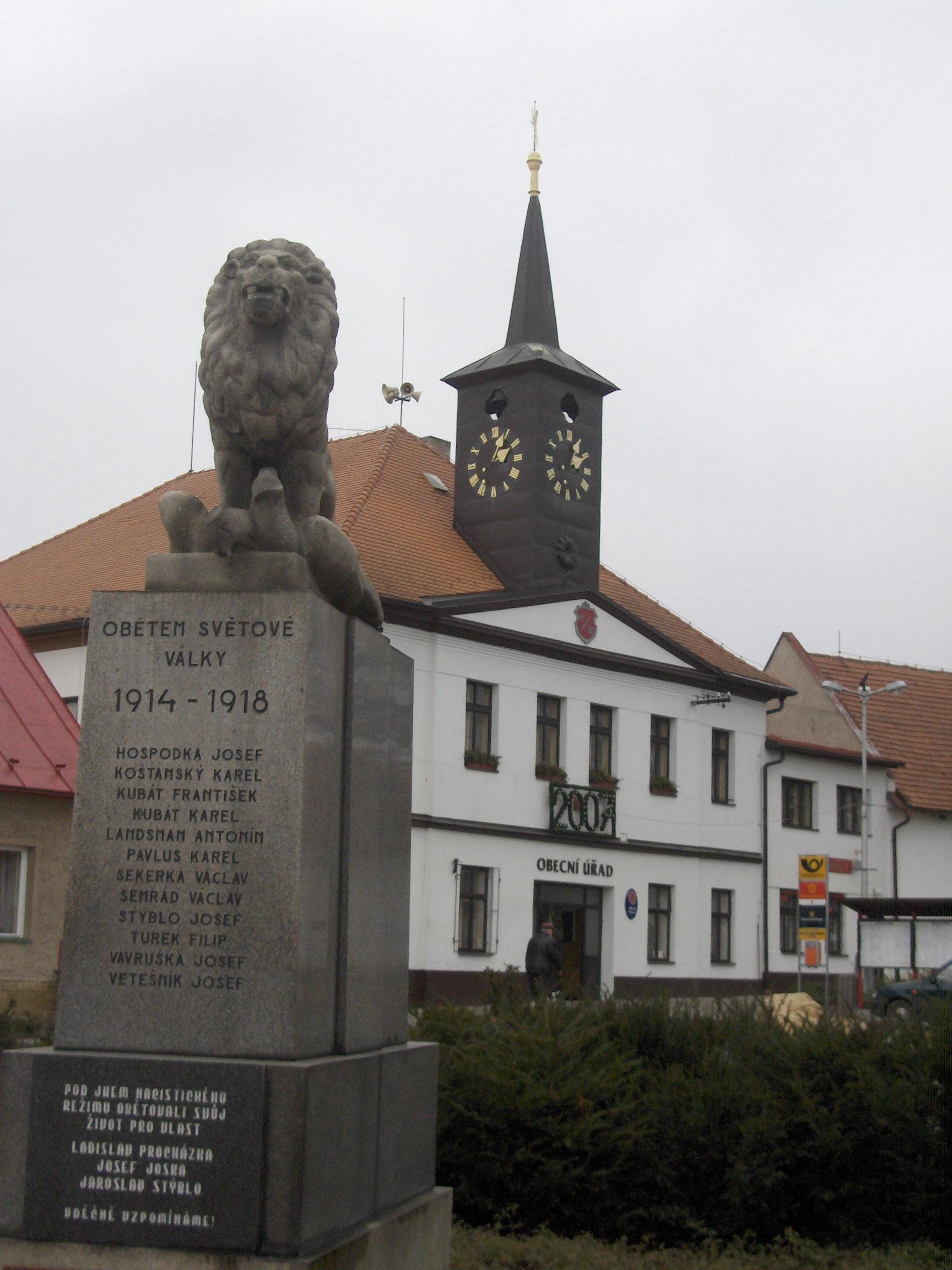 Town hall in Vilémov (Havlíčkův Brod District), Czech Republic.